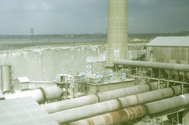 Cement Kilns, Swanscombe, 1973. The large pipes are rotary kilns. In the background is the Thames rounding Broadness Point, with Grays ahead and the Tilbury grain elevator TQ6276 at right. The pylon marks the point where the high-level cross-river power line from West Thurrock returns to conventional pylon level